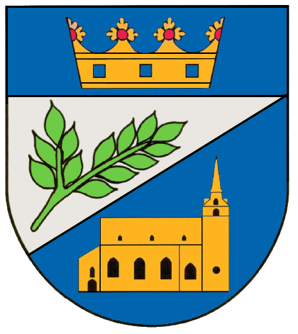 Coat of arms of Weidingen